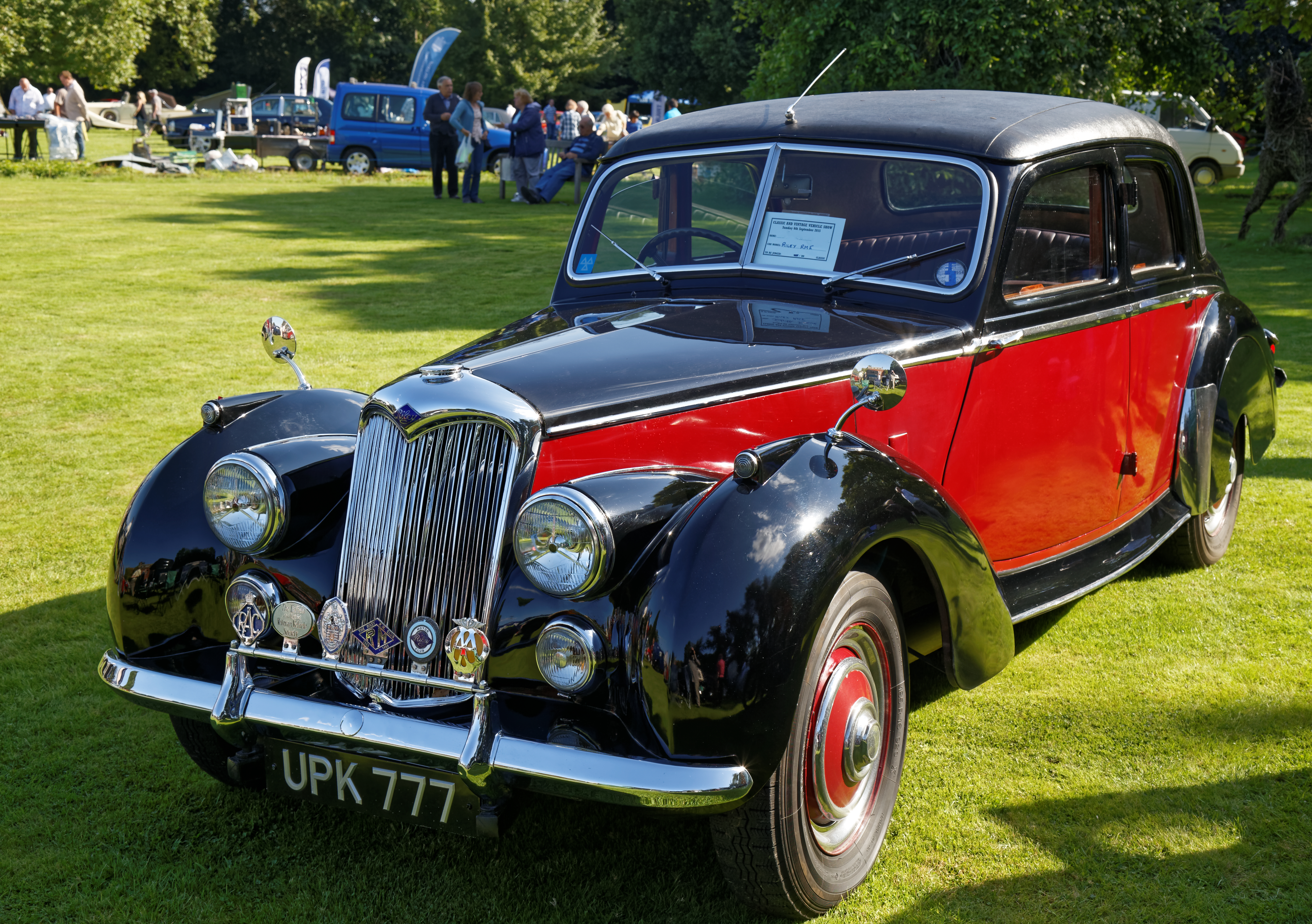 1954 Riley RME 1.5 Litre saloon at Capel Manor, Bulls Cross, Enfield, London, England.Software: RAW file lens-corrected, optimized and converted to JPEG with DxO OpticsPro 10 Elite, and likely further optimized and/or cropped and/or spun with Adobe Photoshop CS2.